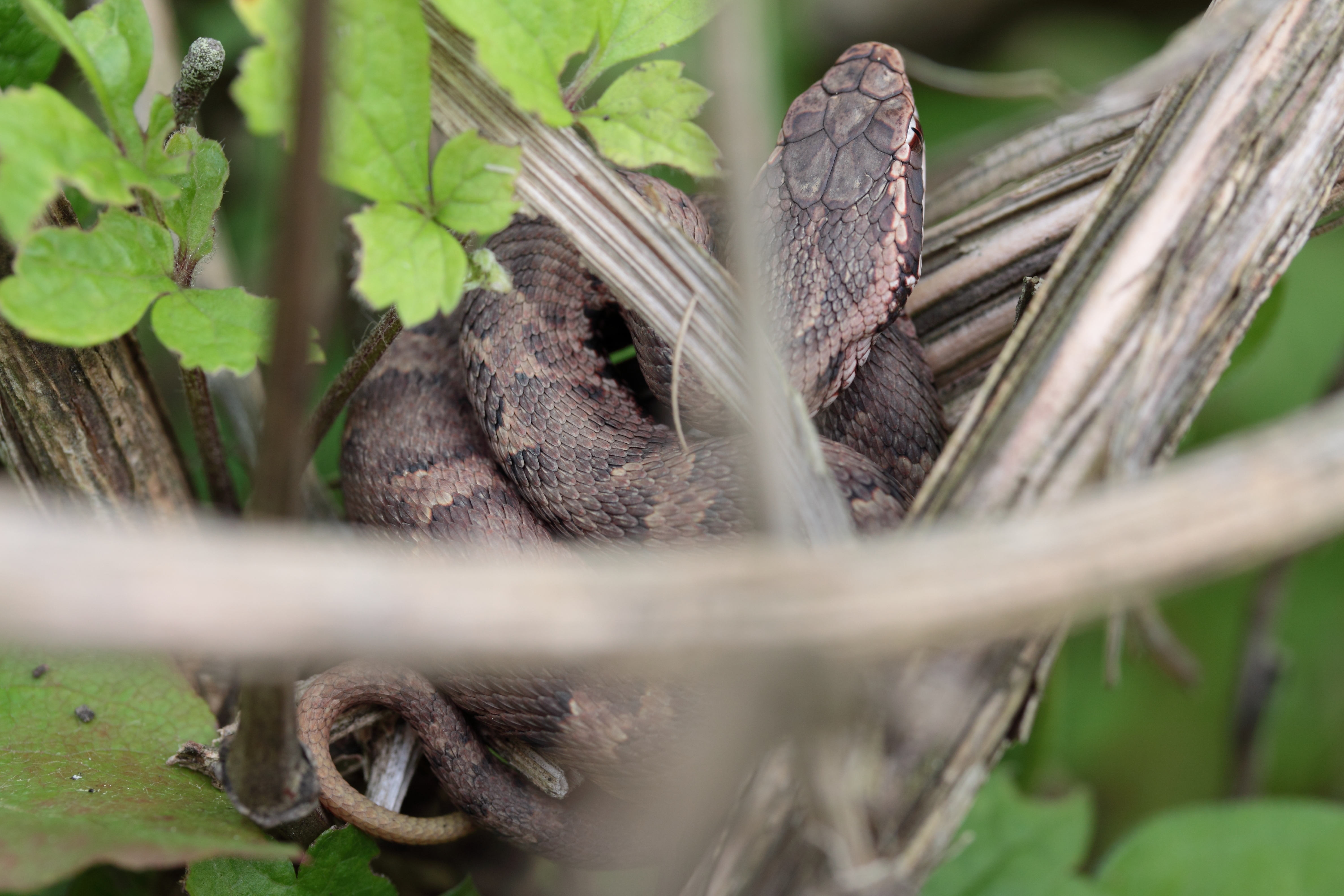 Mamushi snake (species Gloydius blomhoffii) in Hachiōji, Tokyo, Japan.